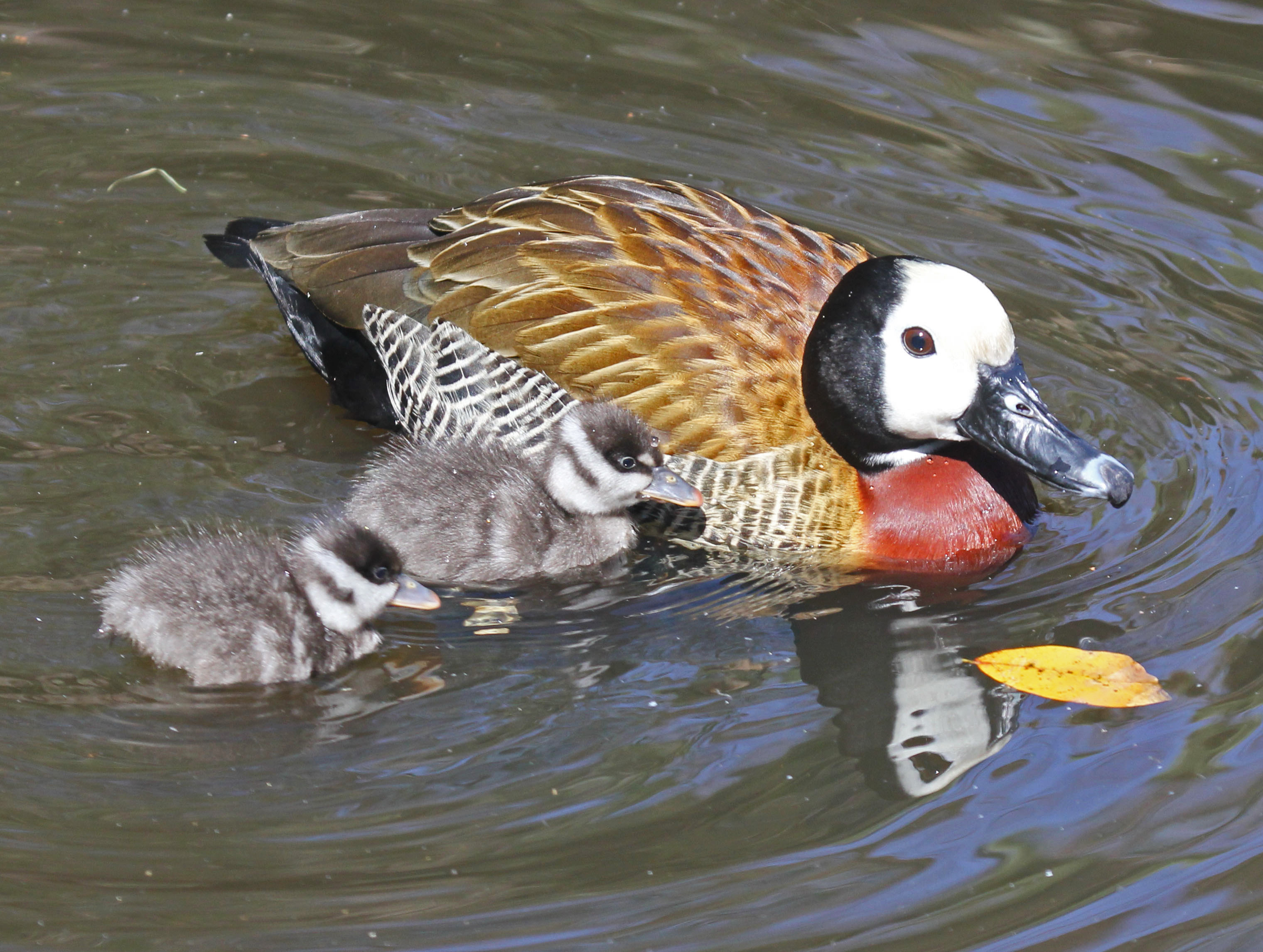 White-faced Whistling Duck (Dendrocygna viduata) - Birds of Eden, South Africa